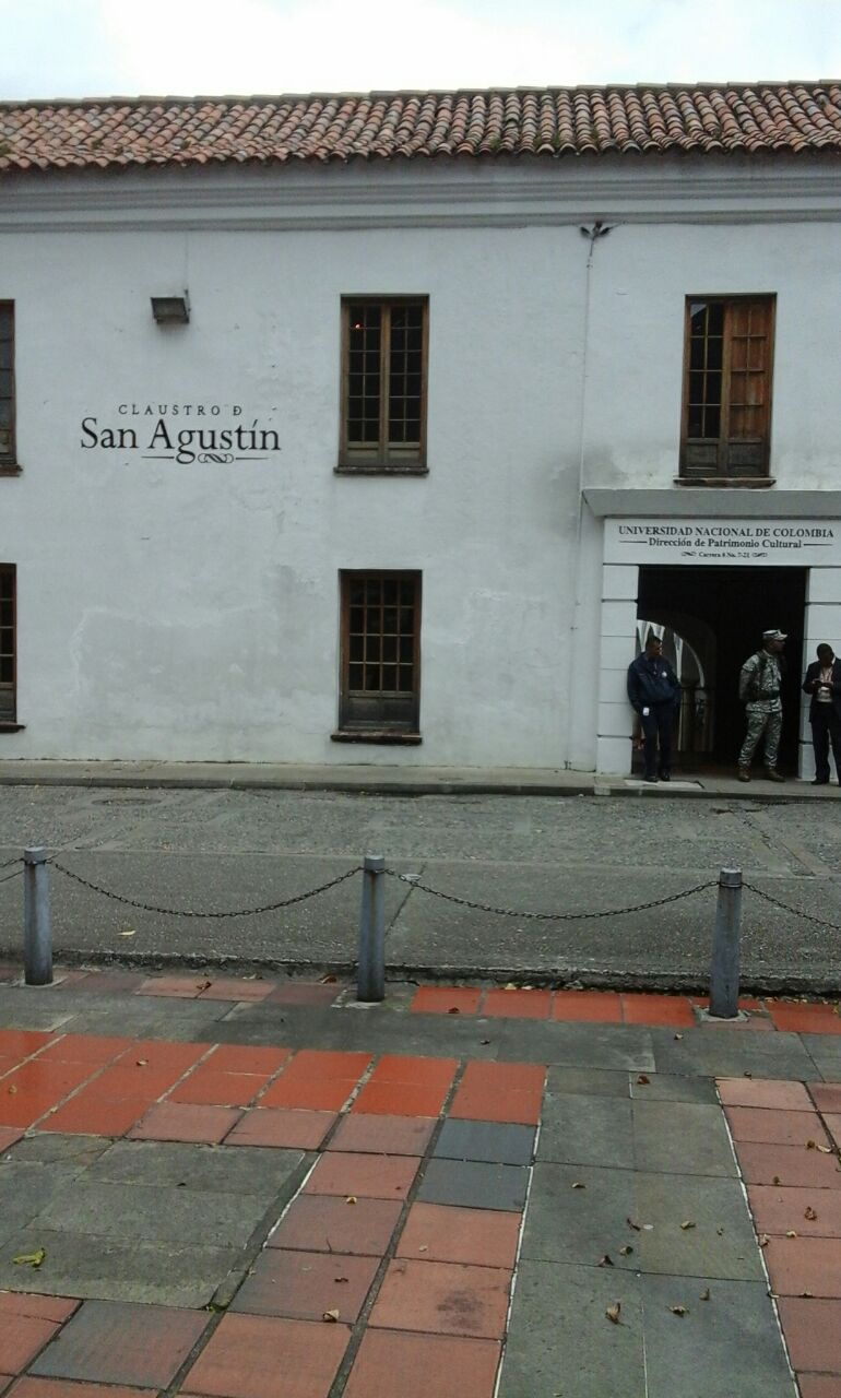 Fachada Claustro de San Agustín